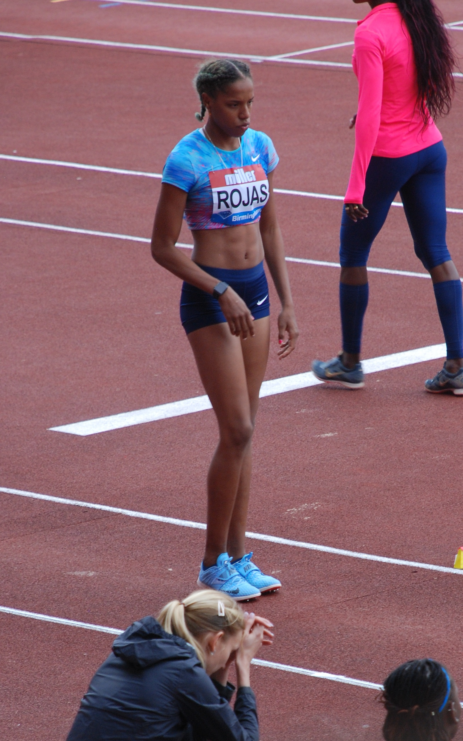 Yulimar Rojas competing in the women's triple jump at Muller Diamond League Birmingham Grand Prix